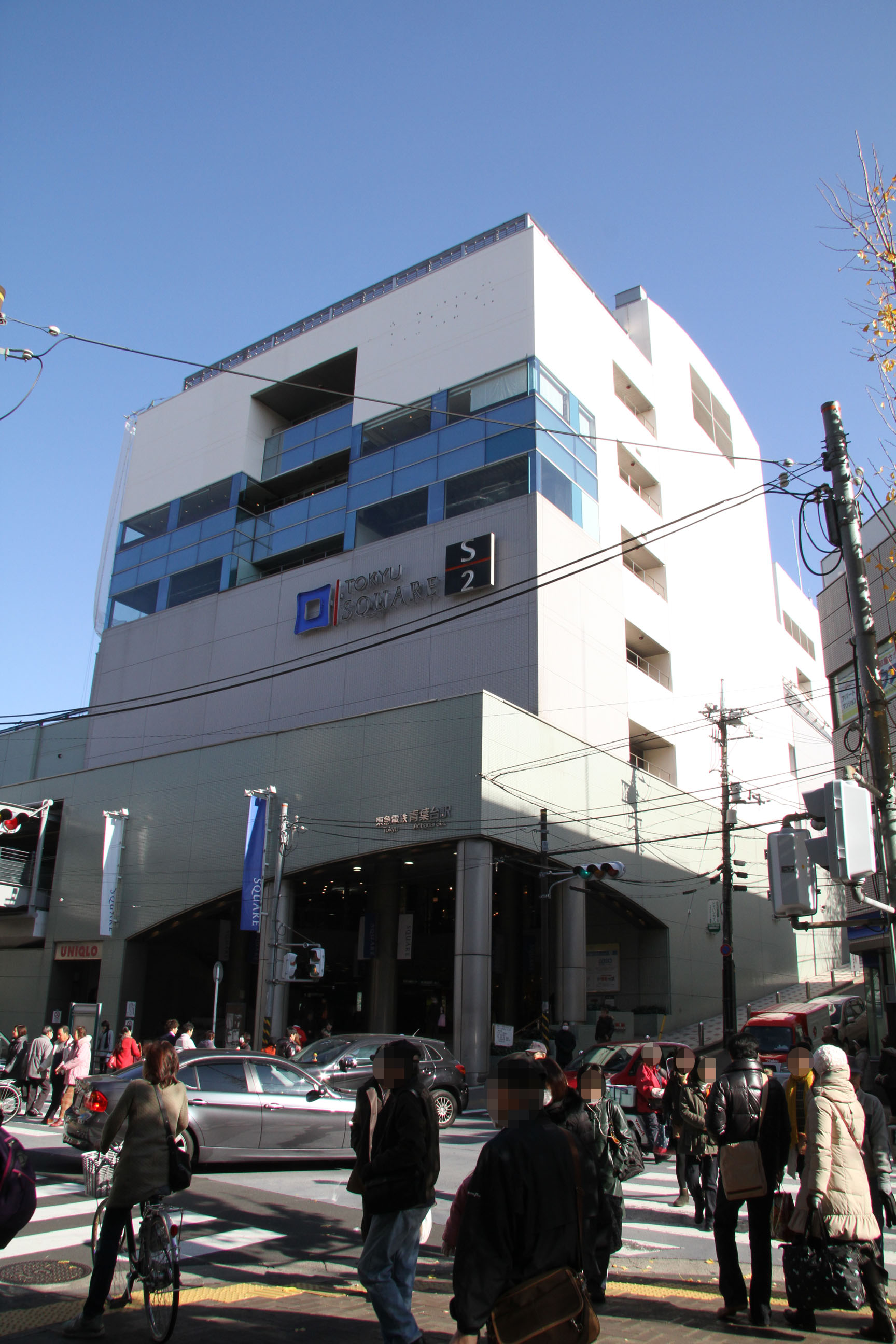 Aobadai Tokyu Square (S-2 building), Aoba-ku, Yokohama, Kanagawa, Japan